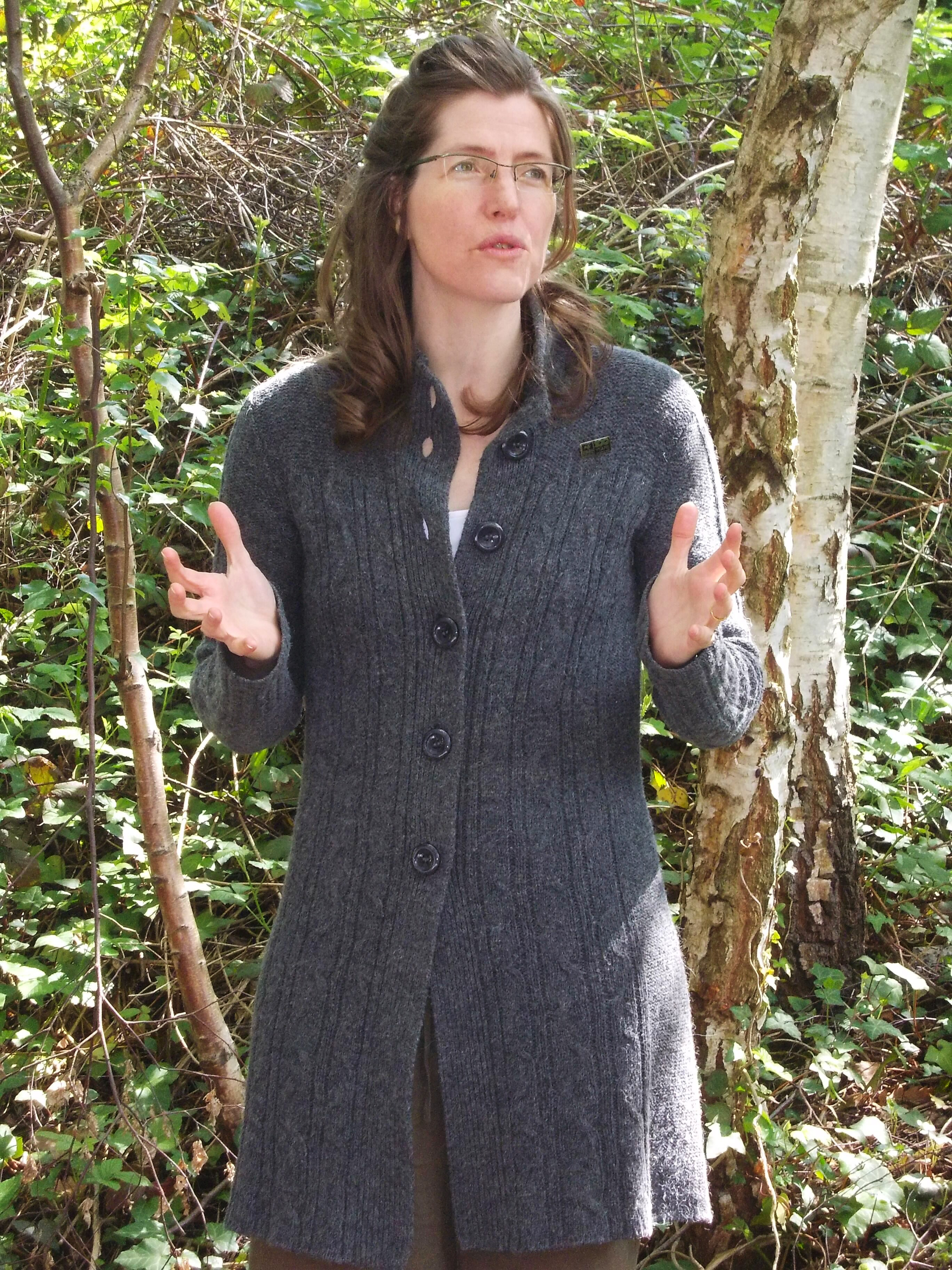 Stephanie Hilborne celebrating 100 years of the Wildlife Trusts at Gunnersbury Triangle local nature reserve, 2012